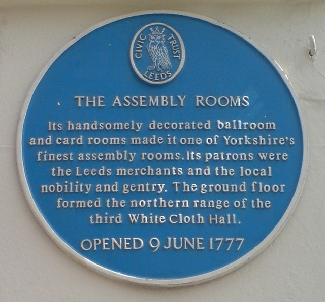 Blue Plaque, The Assembly Rooms, Assembly Street, Leeds "Its handsomely decorated ballroom and card rooms made it one of Yorkshire's finest assembly rooms. Its patrons were the Leeds merchants and the local nobility and gentry. The ground floor formed the northern range of the third White Cloth Hall. Opened 9 June 1777" See the location of the plaque - 1411010 And the third White Cloth Hall - 1407054